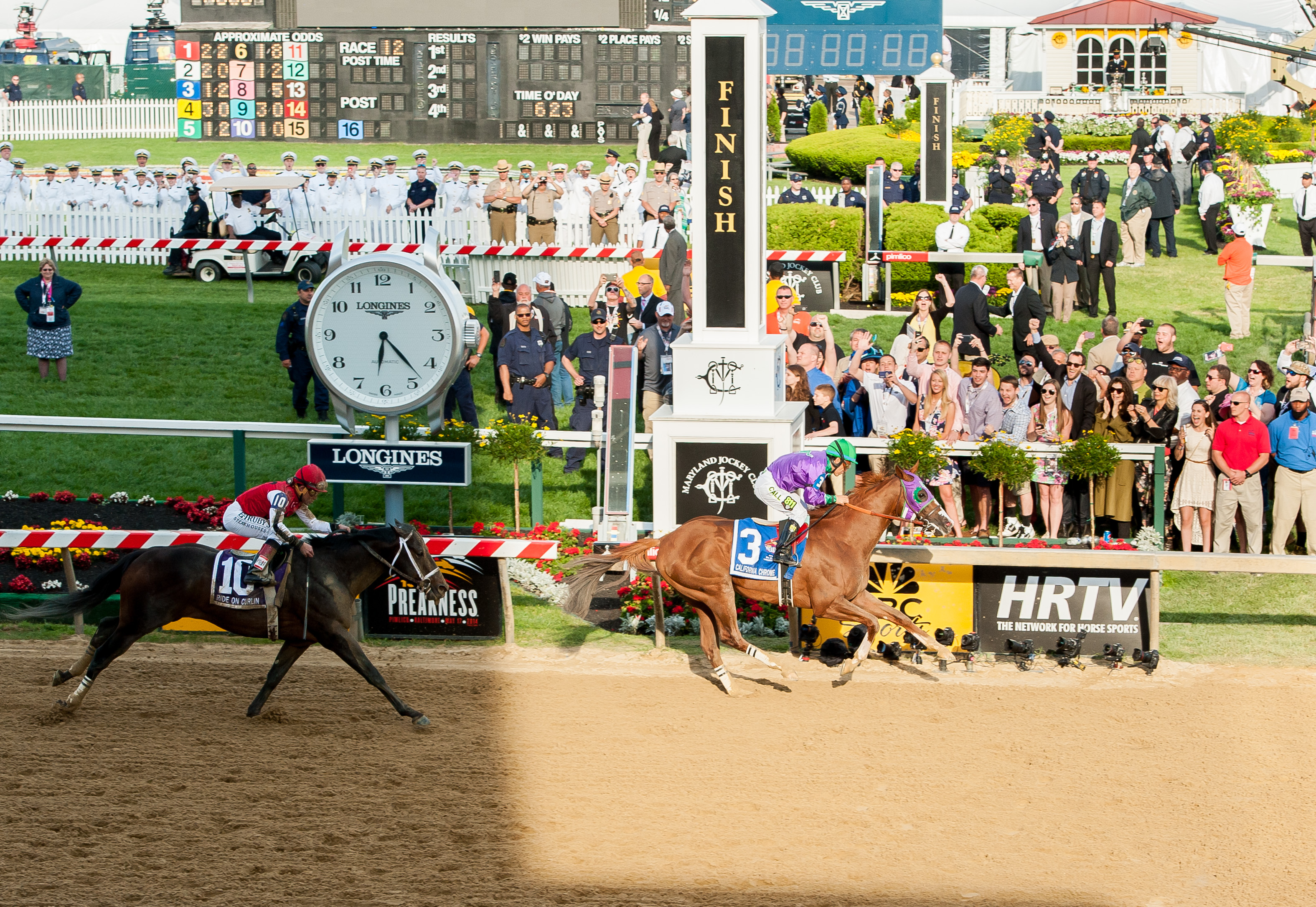 Finish of the 139th Preakness Stakes. by Jay Baker at Baltimore, MD.